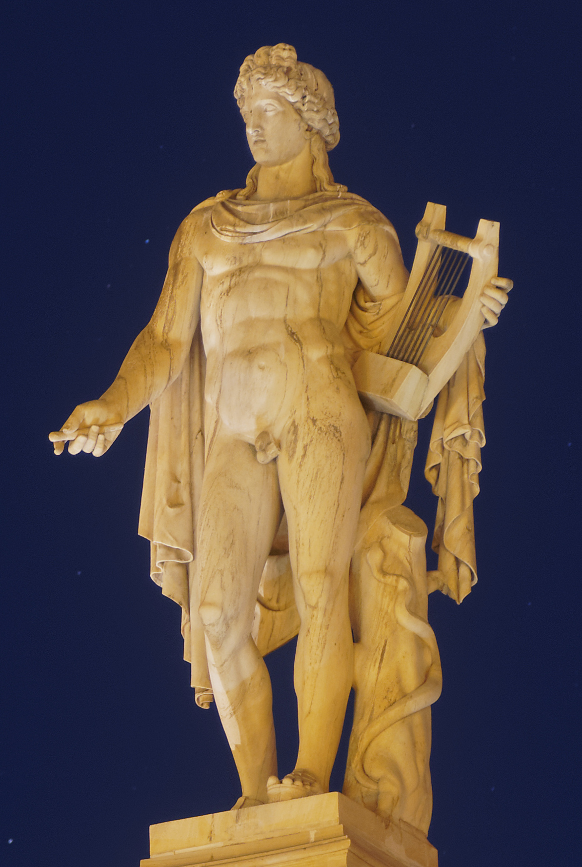 Apollo column at the Academy of Athens, work of Leonidas Drosis (died in 1886), at night.